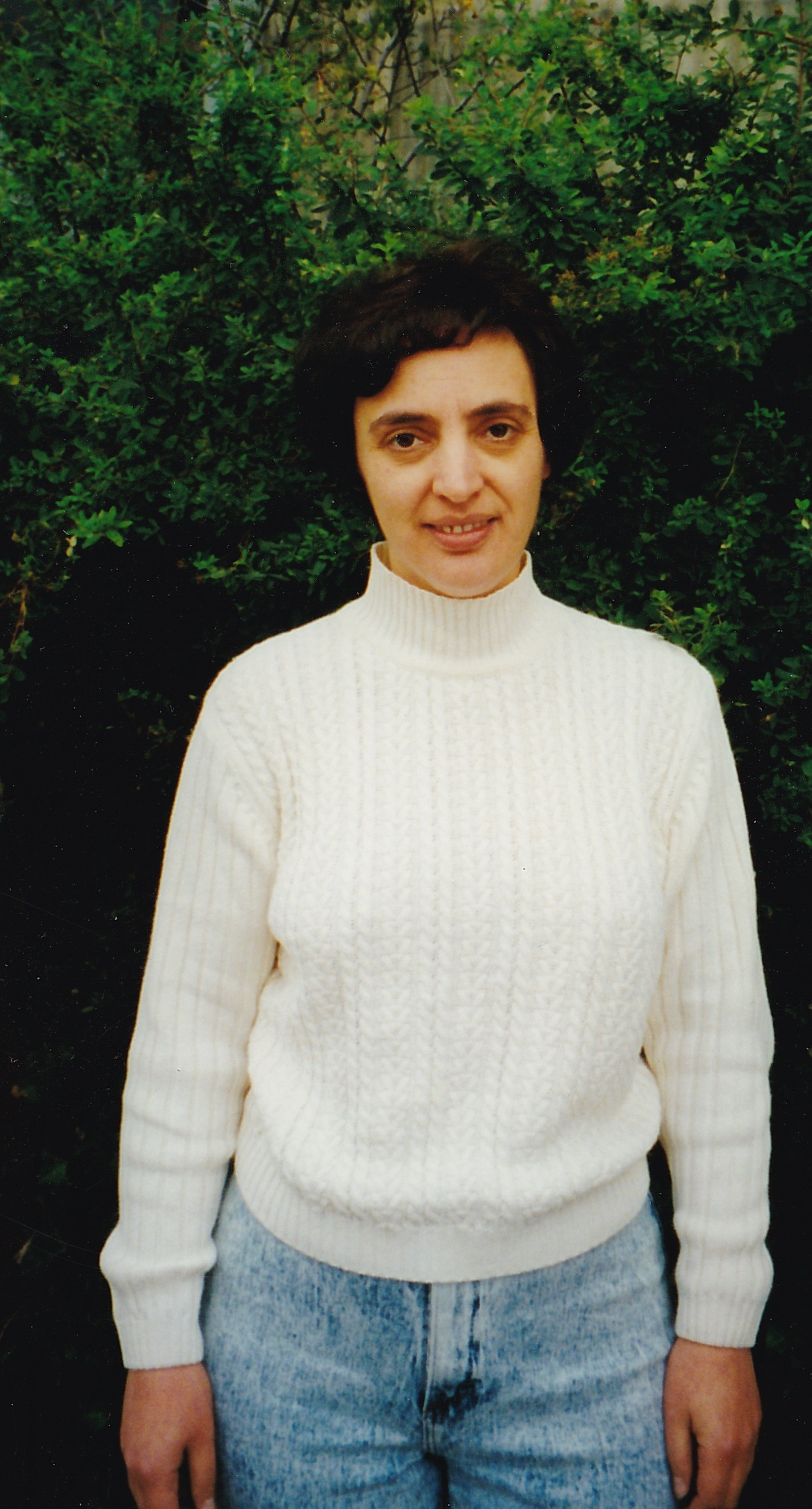 Irina Solomonovna Levitina (born June 8, 1954) is a Russian-American chess and bridge player.